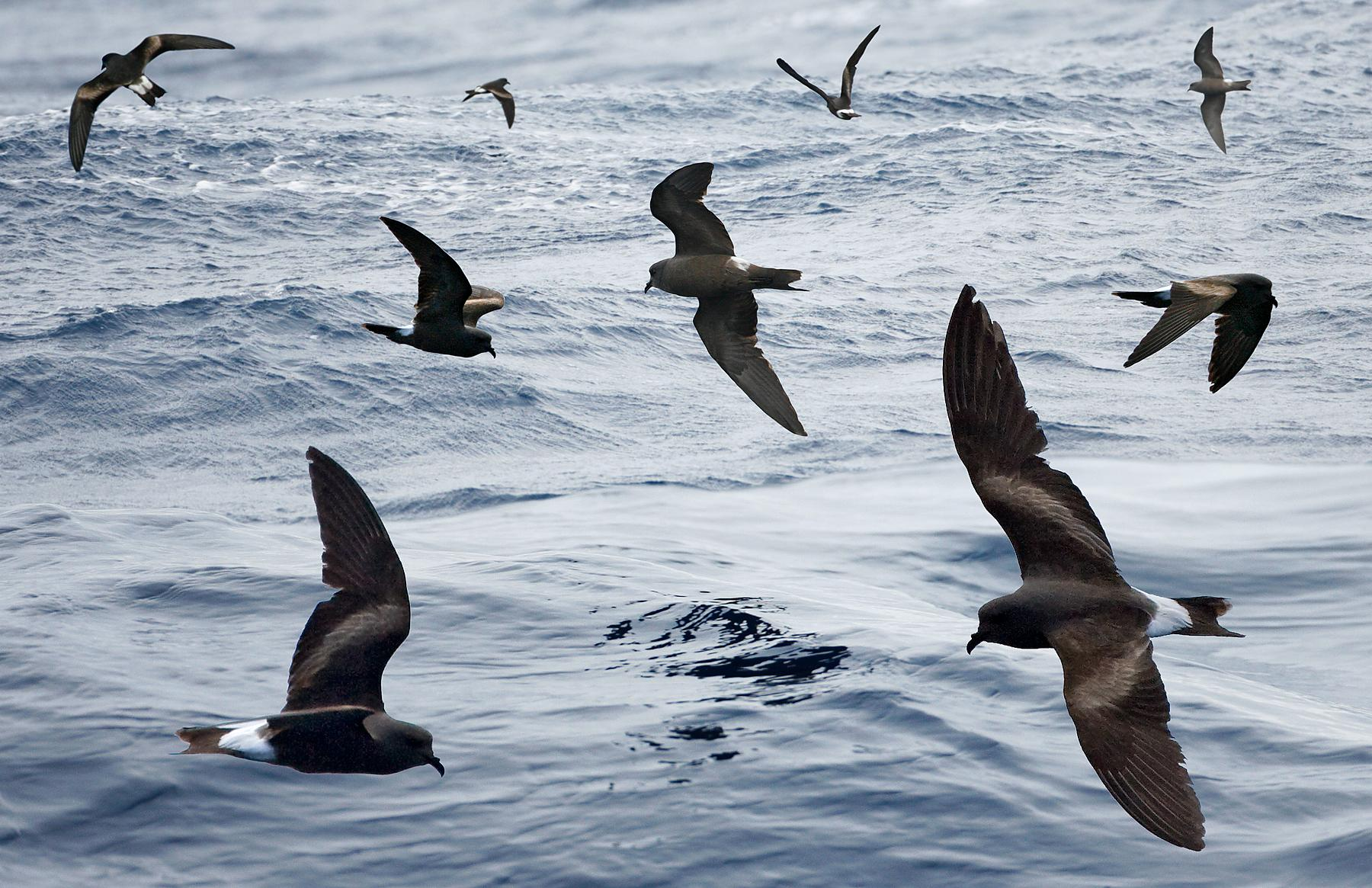 Leach's petrel from the Crossley ID Guide Eastern Birds